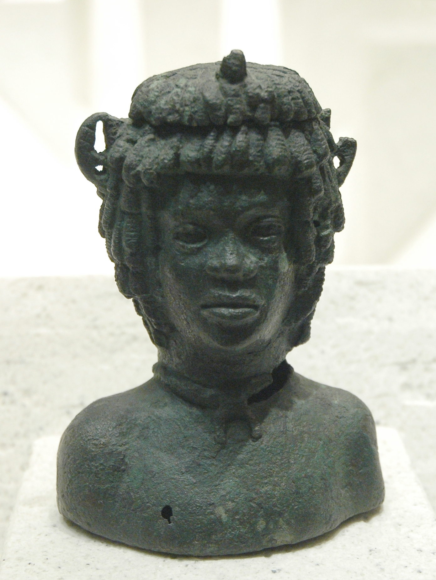 Head of a black youth. Roman bronze perfume vase, 3rd century AD.